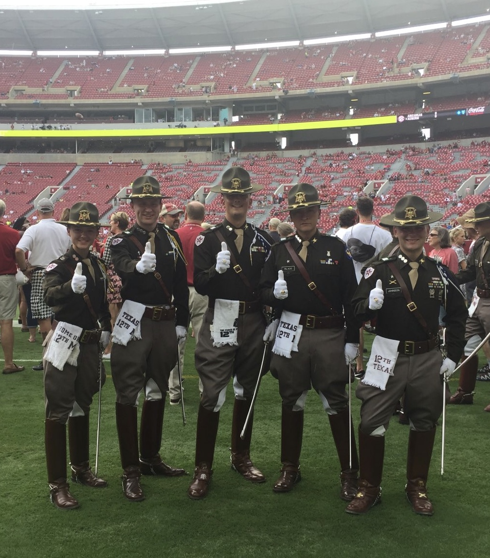 Texas A&M cadets serve as Officers of the Day at a university football game